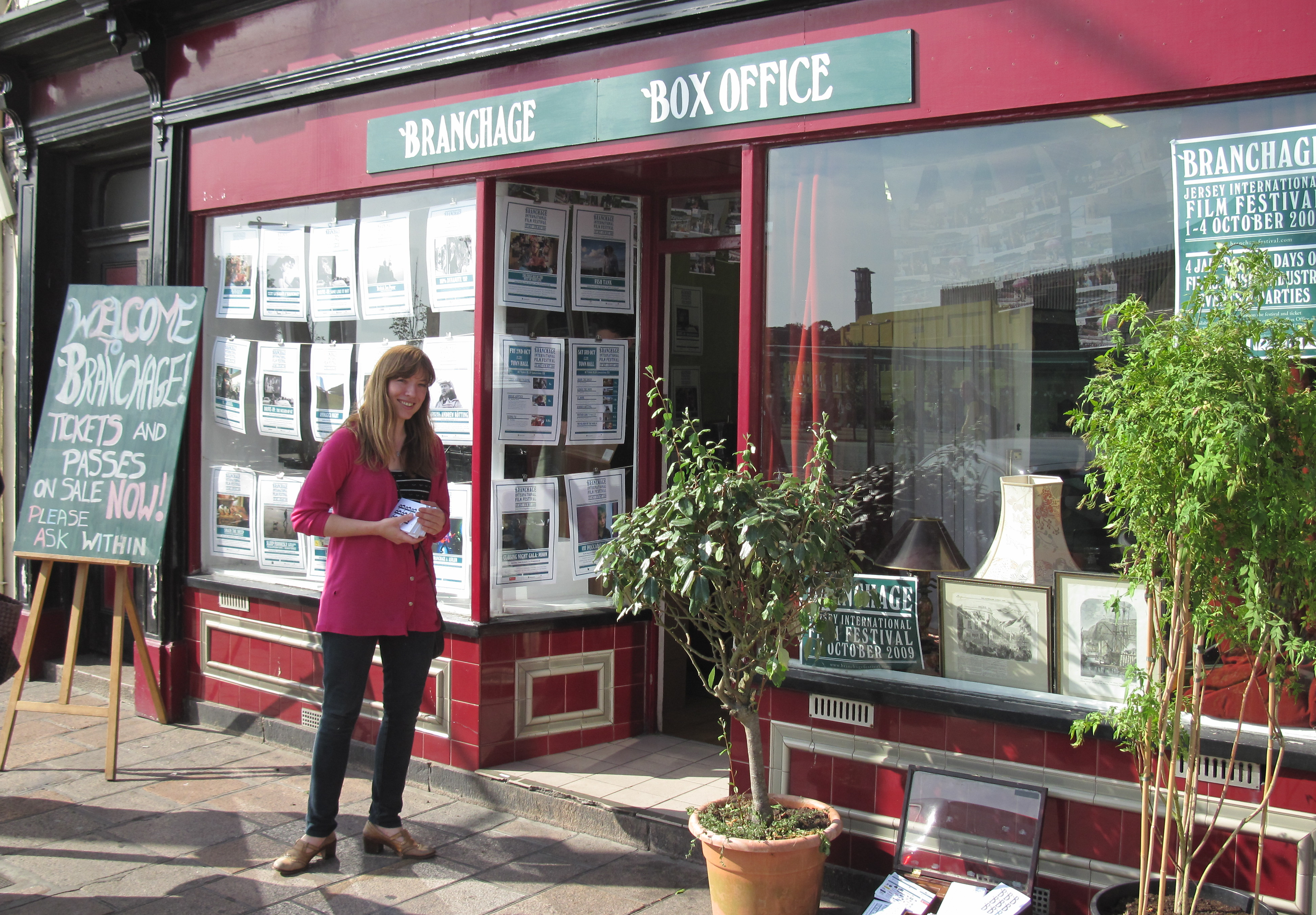 Branchage Film Festival - Jersey International Film Festival 1-4 October 2009: box office Nrf: Fête du Film du Brancage - Fête întèrnâtionnale du film dé Jèrri 1-4 d'Octobre 2009 - compteux ès titchets dans la pièche du Bridge, Saint Hélyi